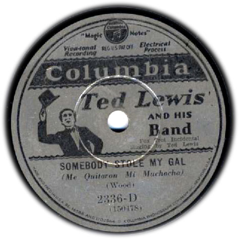 Tedlewis & His Orchestra: Somebody Stole my Gal